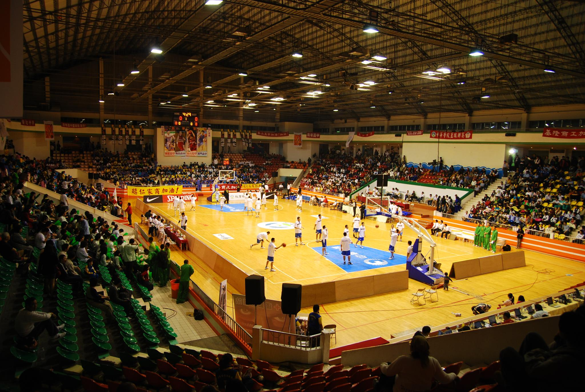 Banqiao Gymnasium